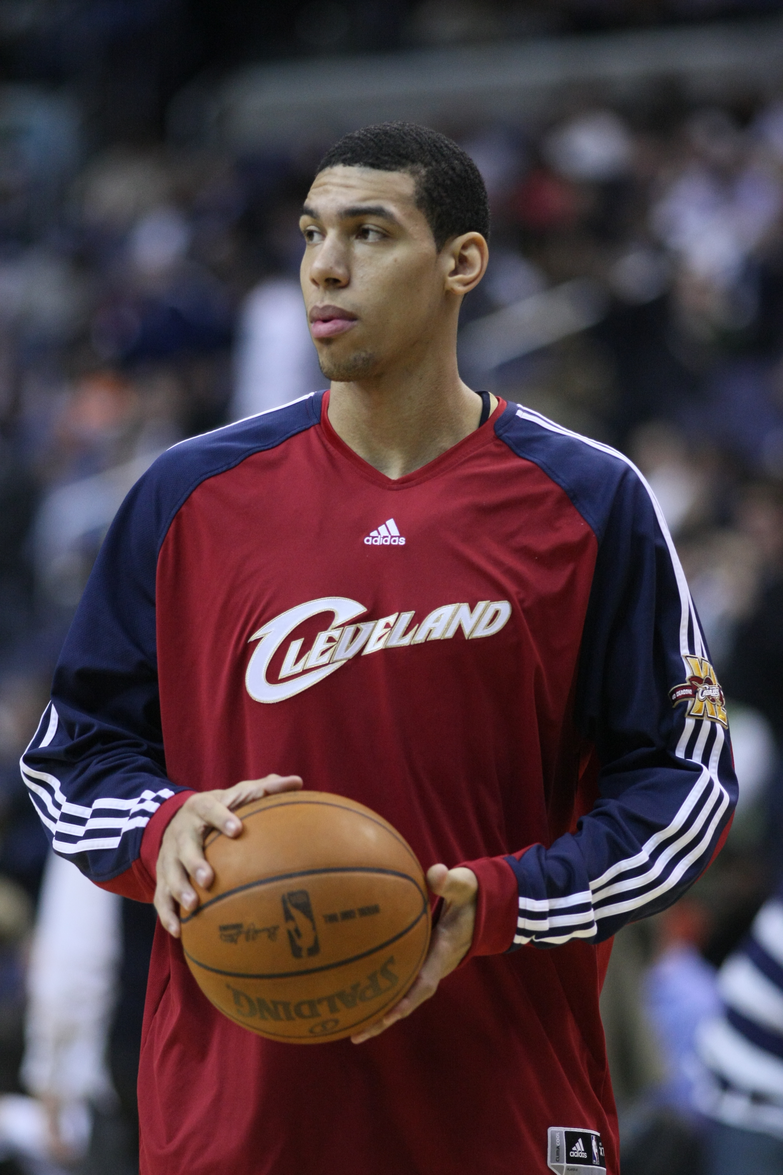 Danny Green of the Cleveland Cavaliers. Washington Wizards v/s Cleveland Cavaliers November 18, 2009 at Verizon Center in Washington, D.C.